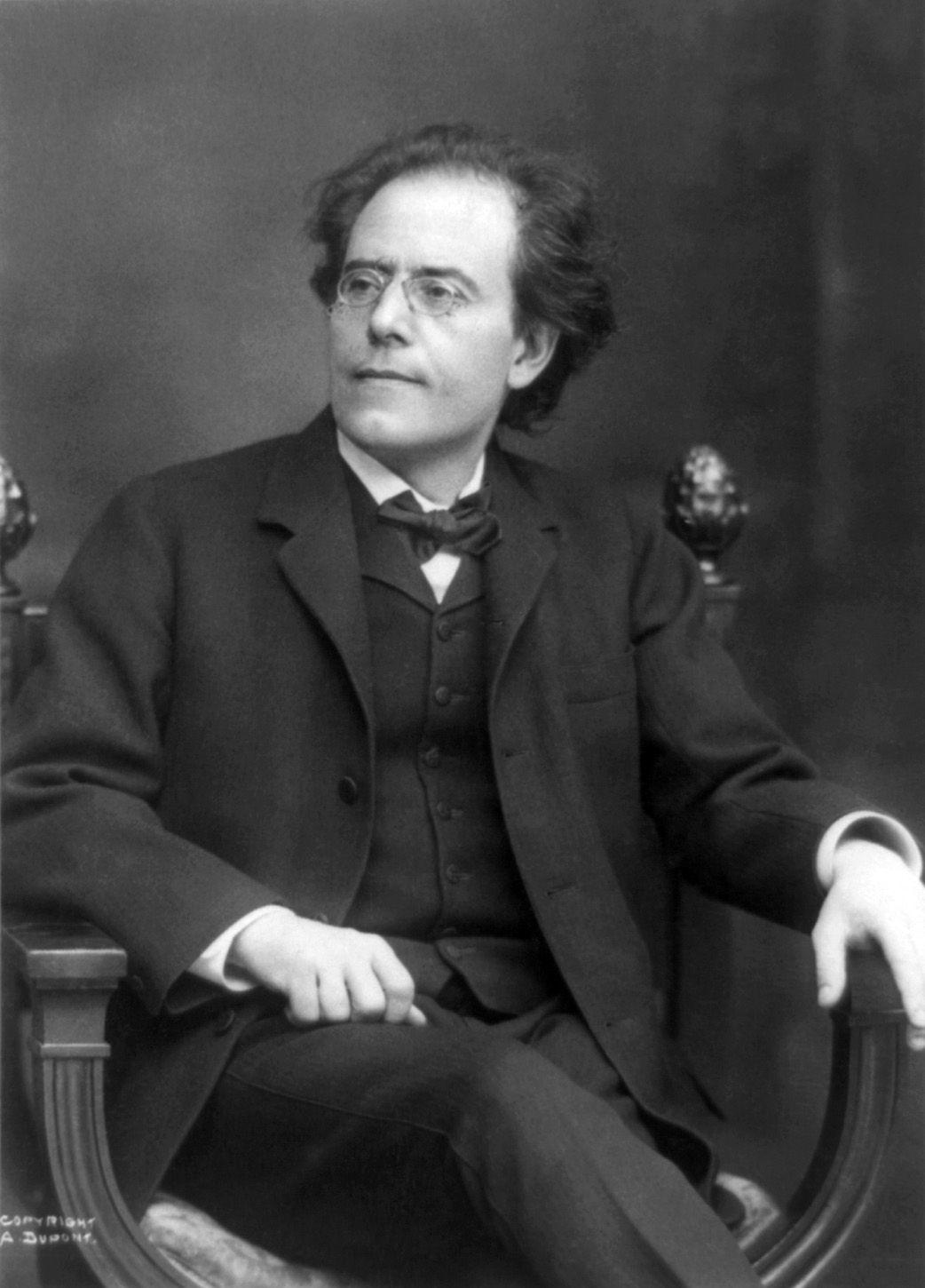 Gustav Mahler, 1860-1911; 3/4, seated, facing left